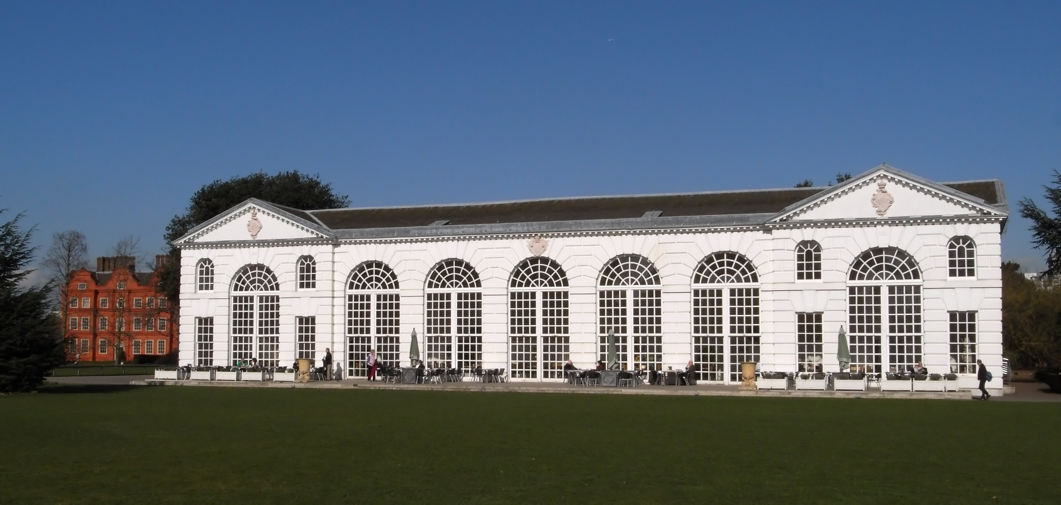 The Orangery in Kew Gardens, London, was designed by Sir William Chambers, and was completed in 1761. It measures 28m x 10m. After many changes of use, it is currently used as a cafe. Kew Palace can be seen in the background.